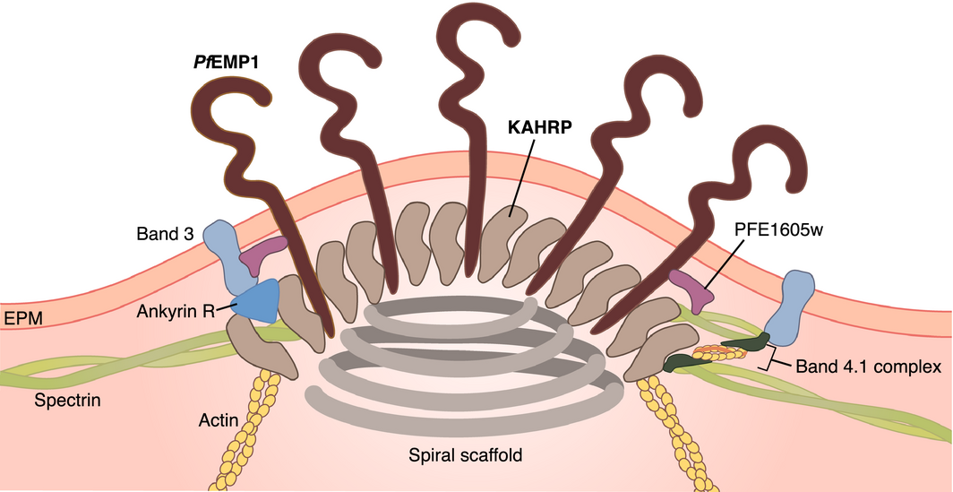 Schematic illustration of the knob structure of P. falciparum-infected erythrocytes.